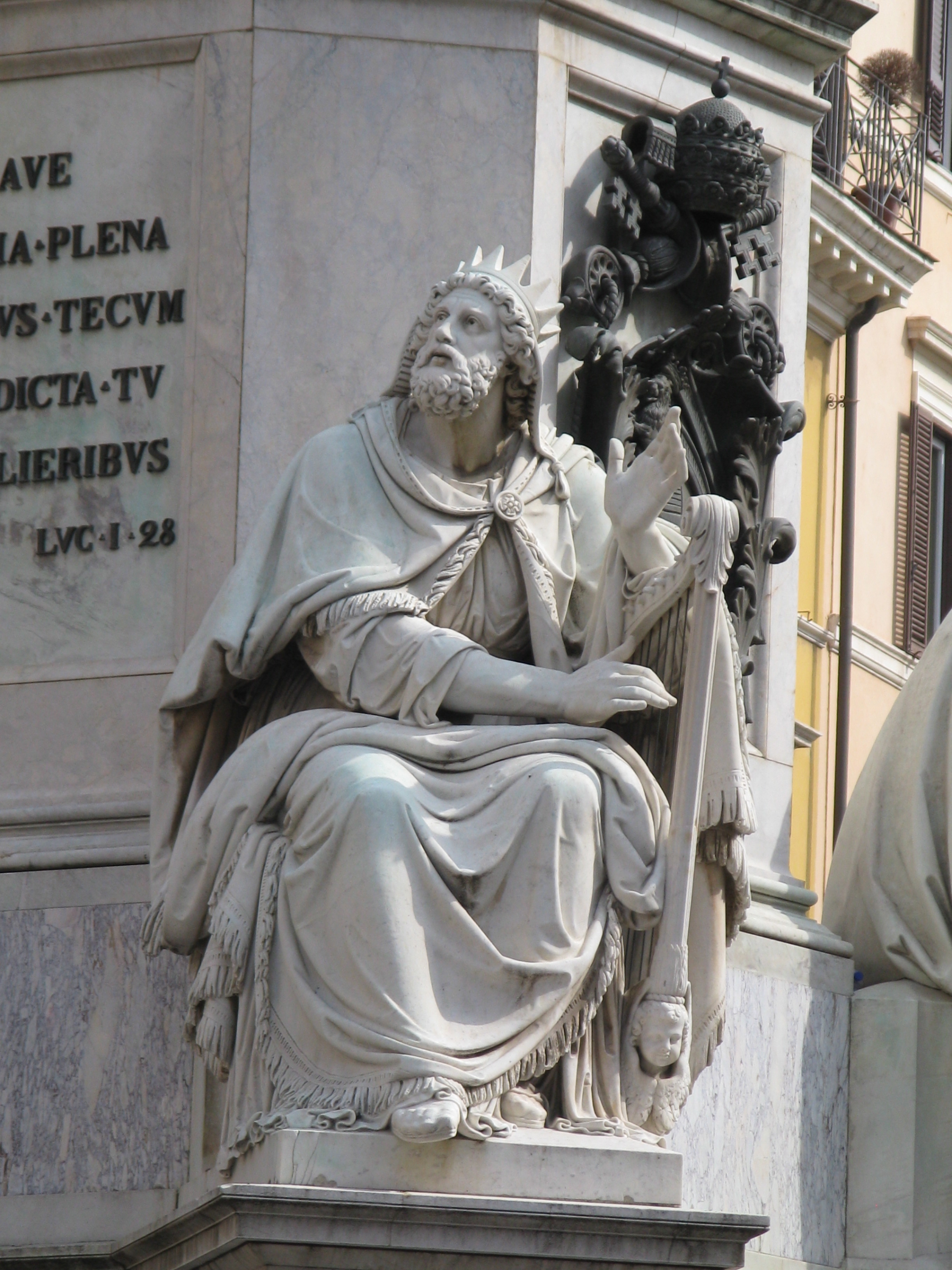 David by Adamo Tadolini at Column of the Immaculate Conception.